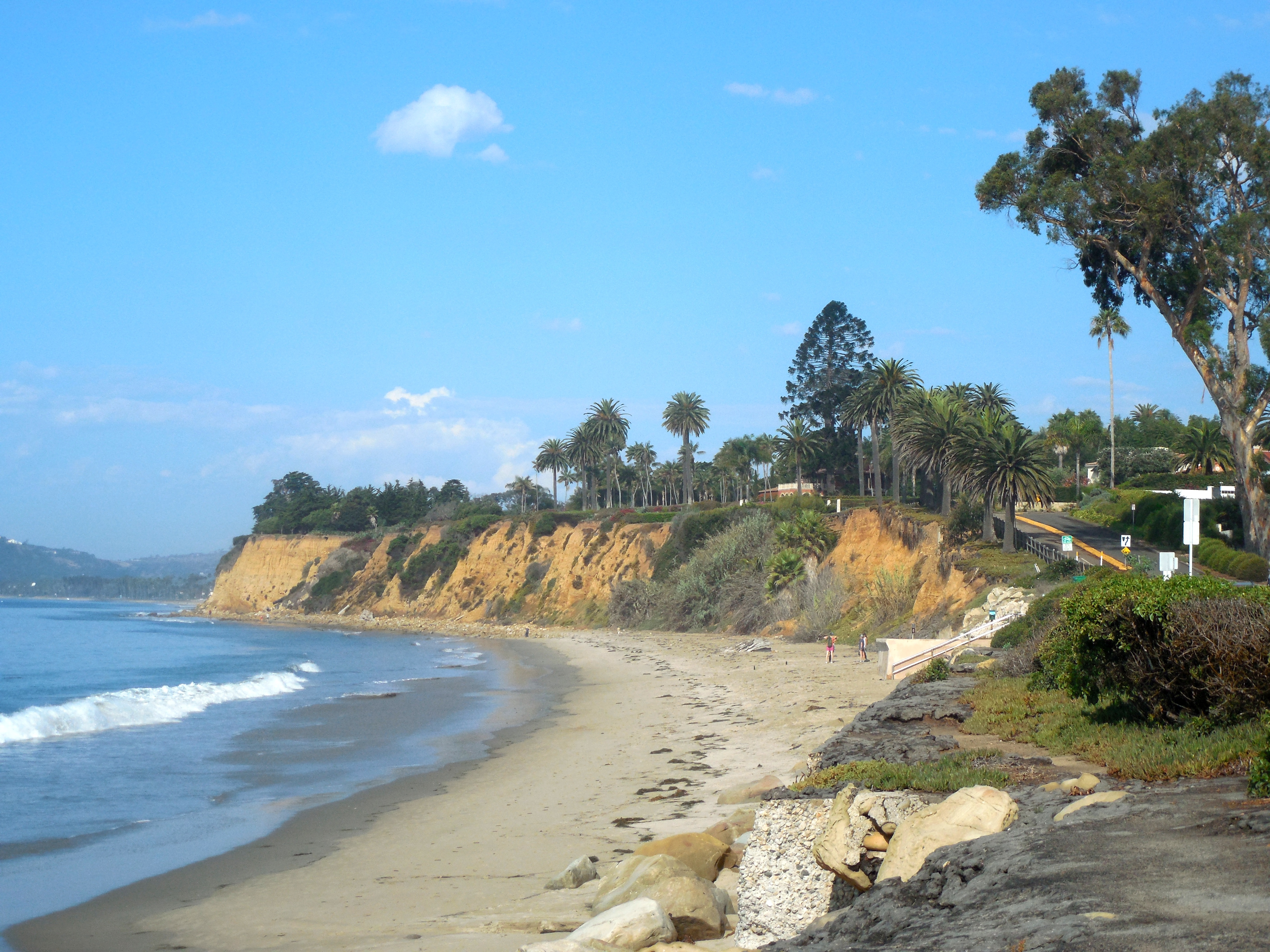 Westward view of Butterfly Beach and the coastal bluffs in Montecito, California, 2017